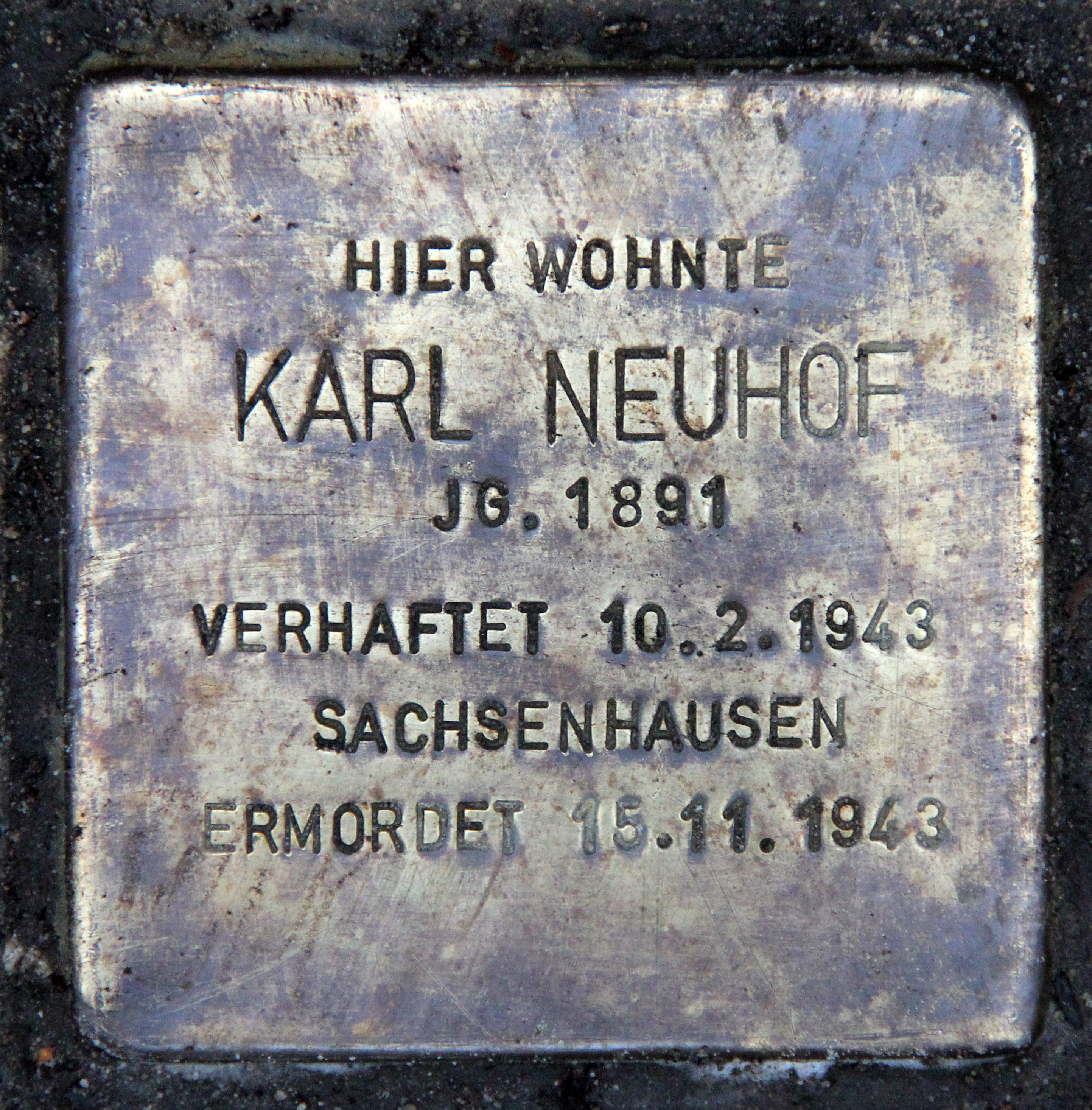 "Stolperstein" (stumbling block), Karl Neuhof, Zeltinger Straße 65, Berlin-Frohnau, Germany